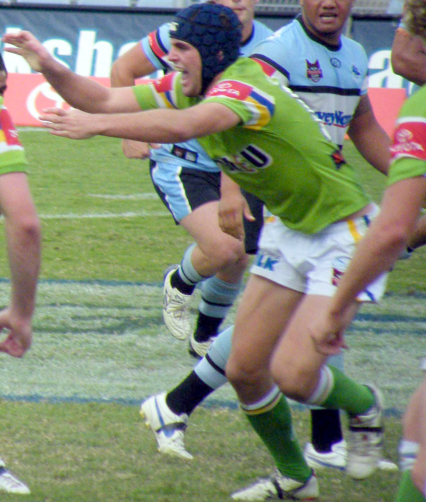 Mark Nicholls